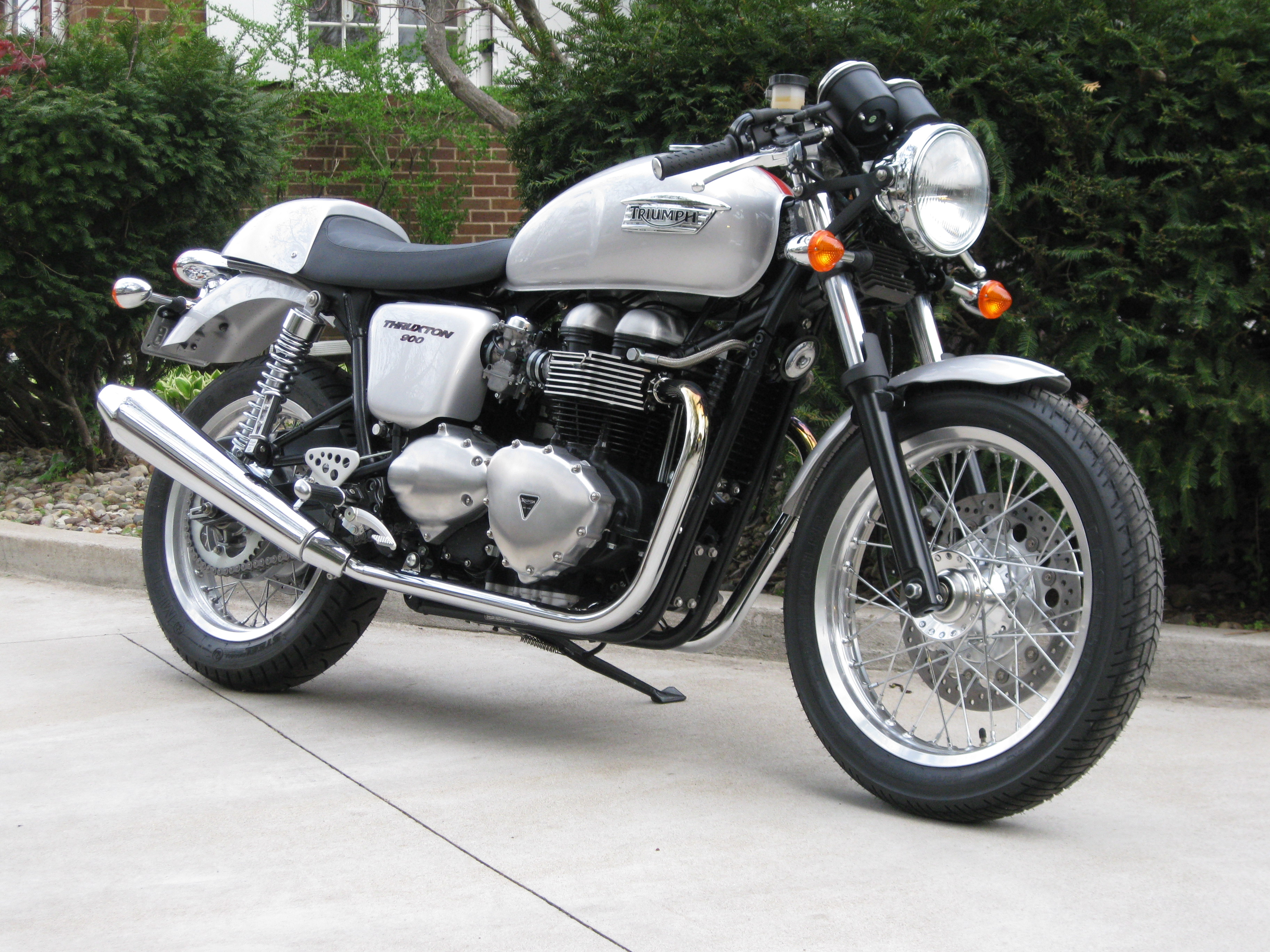 2008 Triumph Thruxton 900